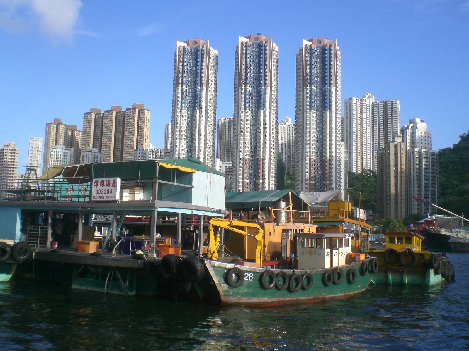 香港仔海濱公園眺望 香港仔避風塘的 黃昏 及對岸鴨脷洲景觀 - 悅海華庭 漁安苑